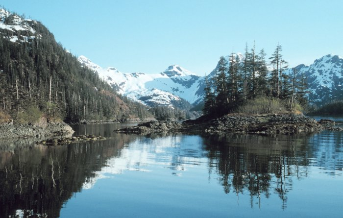 Prince William Sound, Southern Alaska